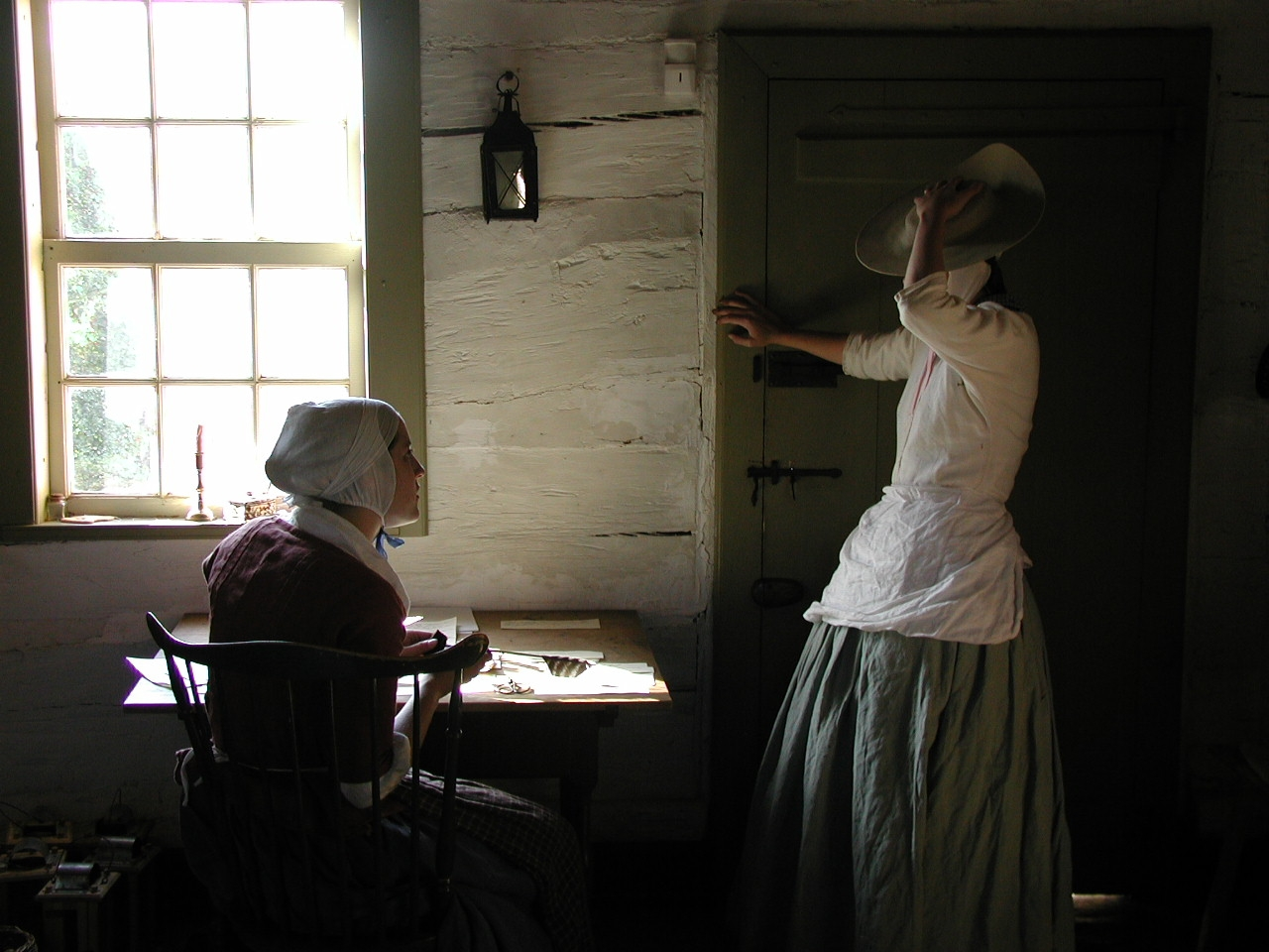 I took this picture in Old Salem.